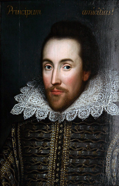 good resolution Cobbe portrait of Shakespeare.